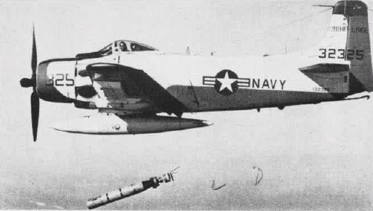 A Douglas AD-4B Skyraider (BuNo 132325) of the Naval Air Weapons Station China Lake, California (USA), dropping a Mk 44 torpedo.